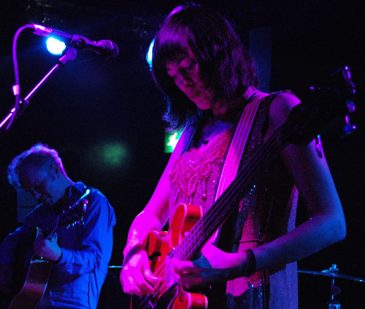 Naomi Yang performing with Damon & Naomi at a concert at The Scala in London in November 2007